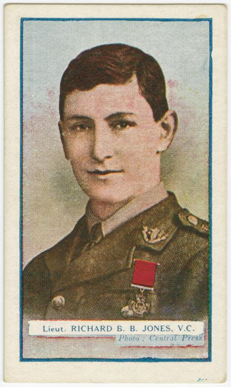 A Gallaher's cigarette card with a colourised photograph of World War I Victoria Cross recipient Richard Basil Brandram Jones.